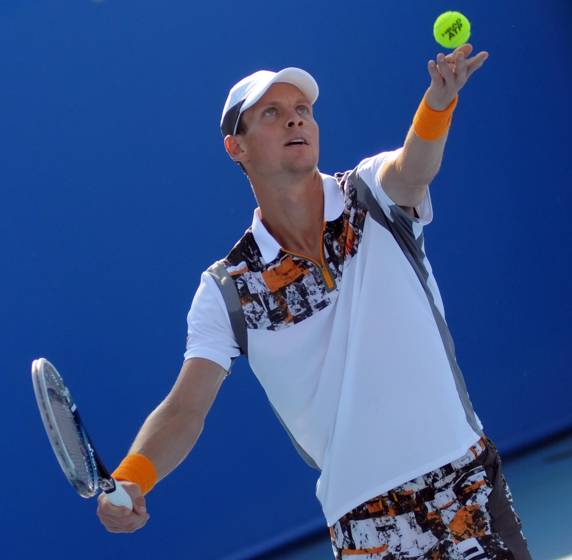 Tomáš Berdych at the 2014 China Open